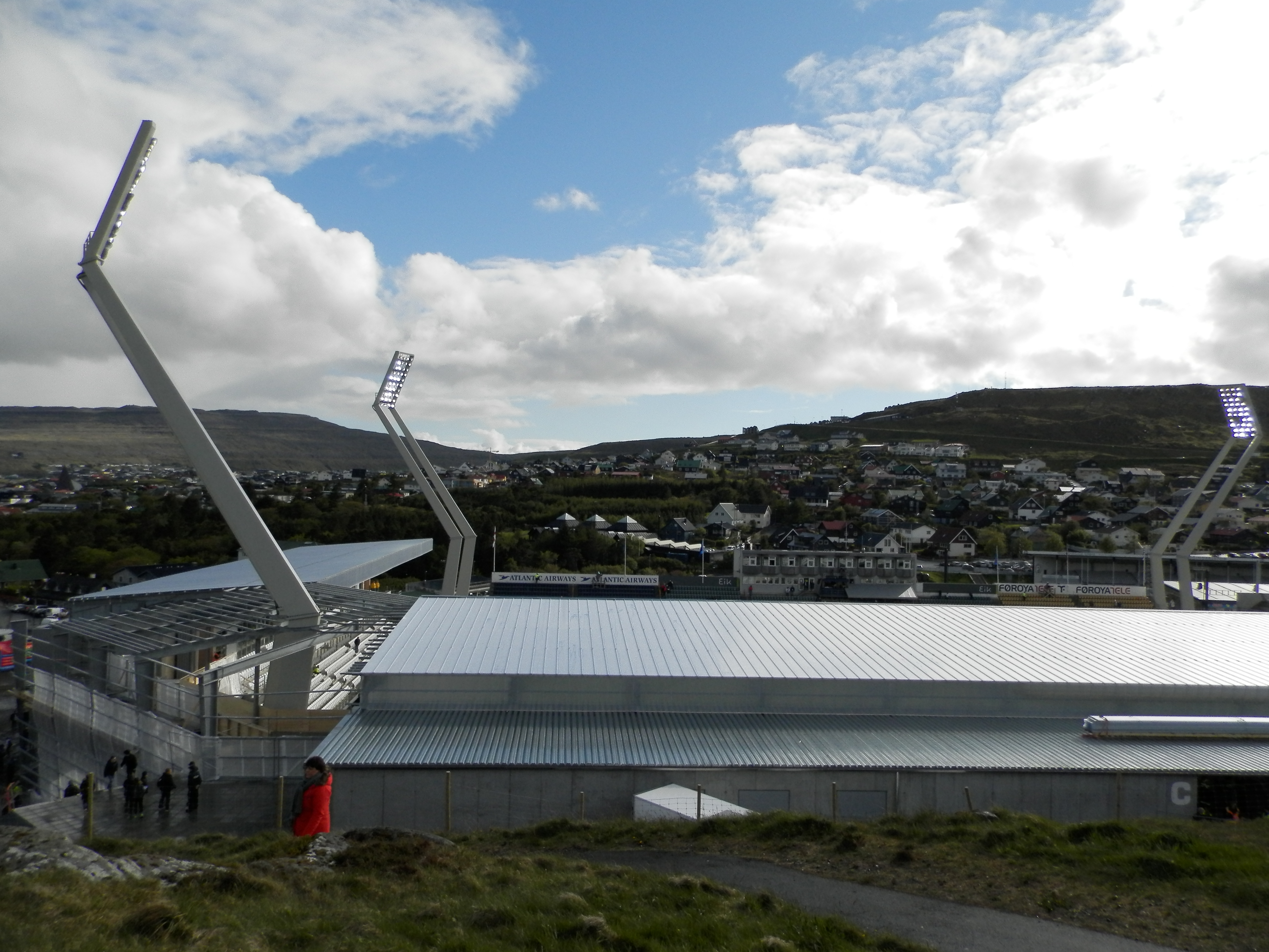 Tórsvøllur is the national stadion of the Faroe Islands national football team located in Tórshavn. There is also another national stadion whihch was used earlier, located on Svangaskarð in Toftir. This photo was taken on 13 June 2015 when the Faroe Islands won 2-1 against Greece.